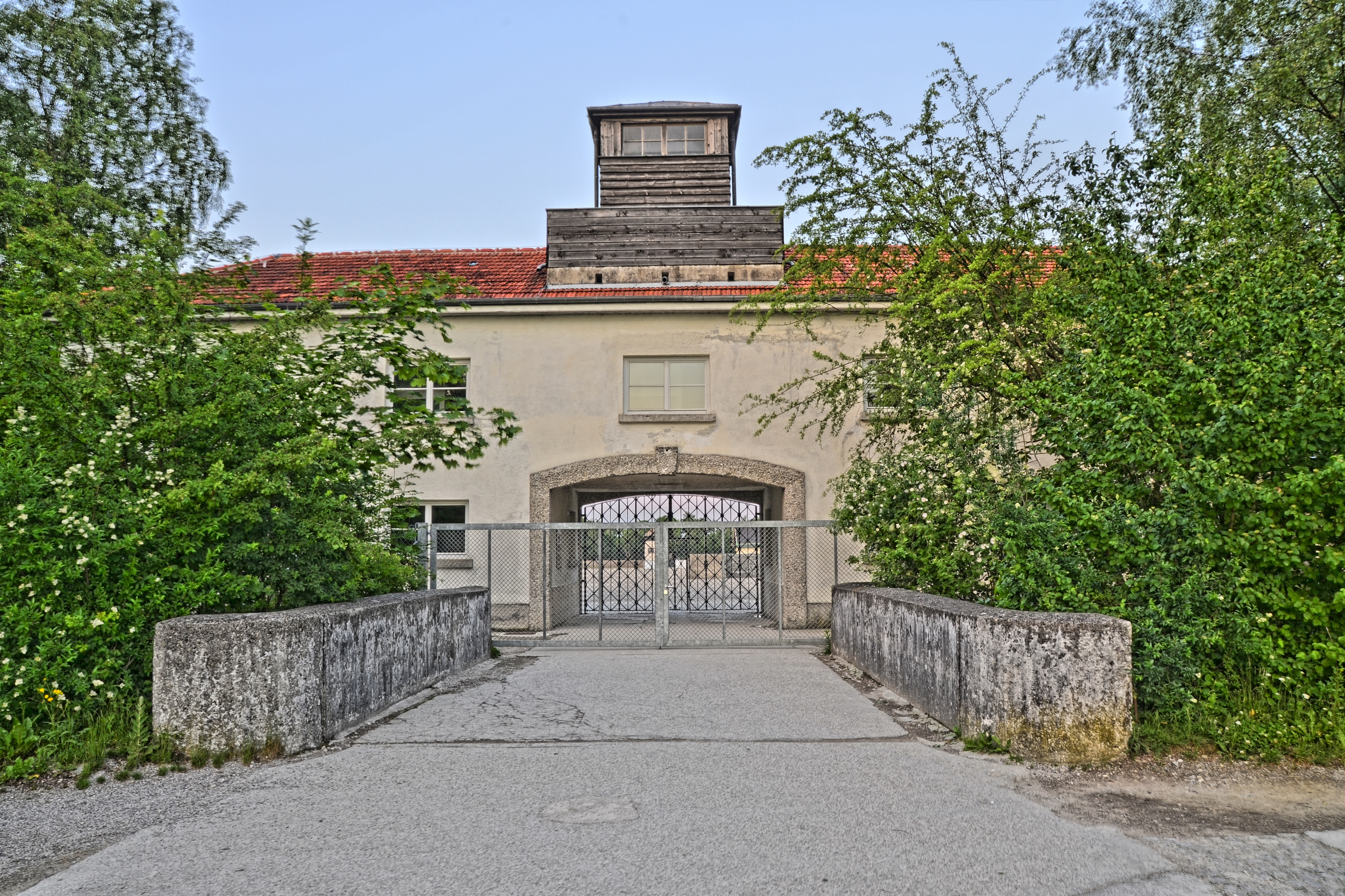 KZ Memorial Dachau, "Jour House" since 2005 Main Gate,. HDR Image